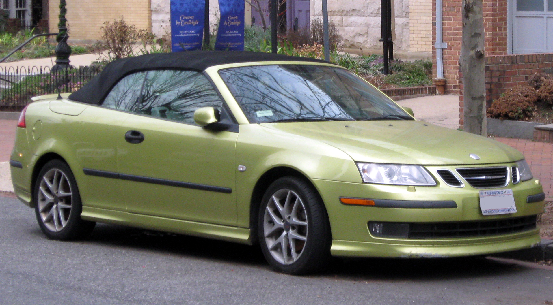 2004-2007 Saab 9-3 photographed in Washington, D.C., USA.